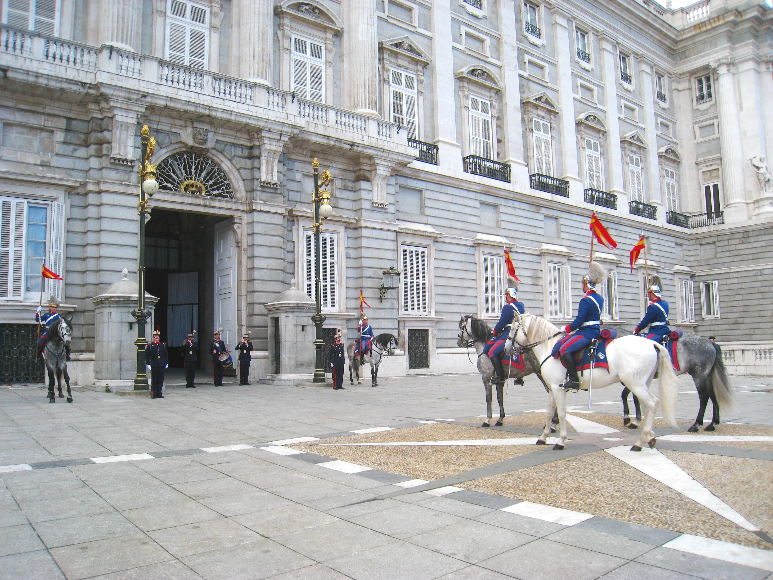 Changing of the Guard, Royal Palace of Madrid, Spain. I took this photograph.